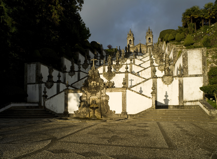 This file was uploaded for Wiki Loves Monuments in Portugal with the unique identifier 97016510.